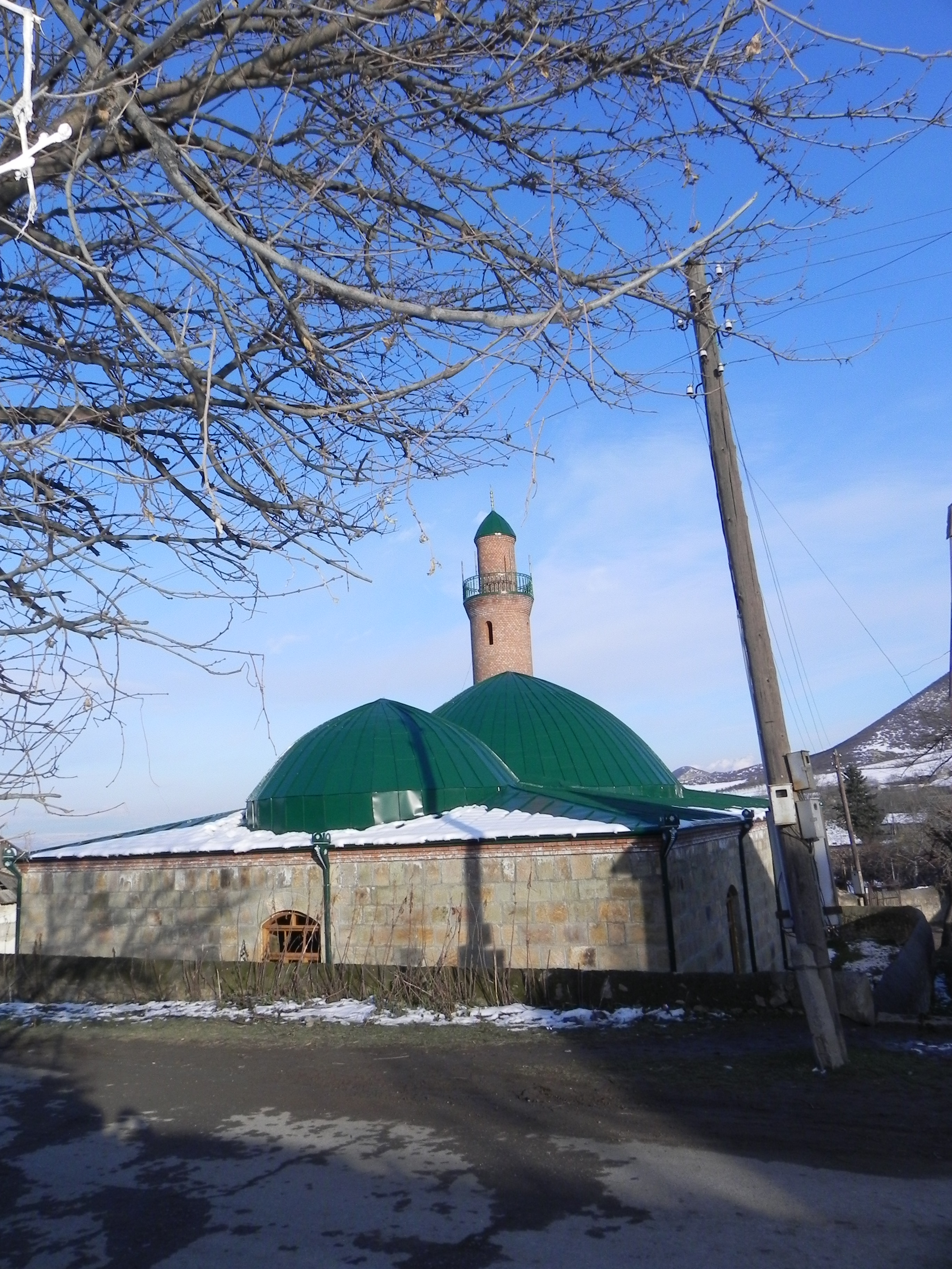 Mosque in Fakhrali villageAzərbaycanca: Faxralı kənd məscidi